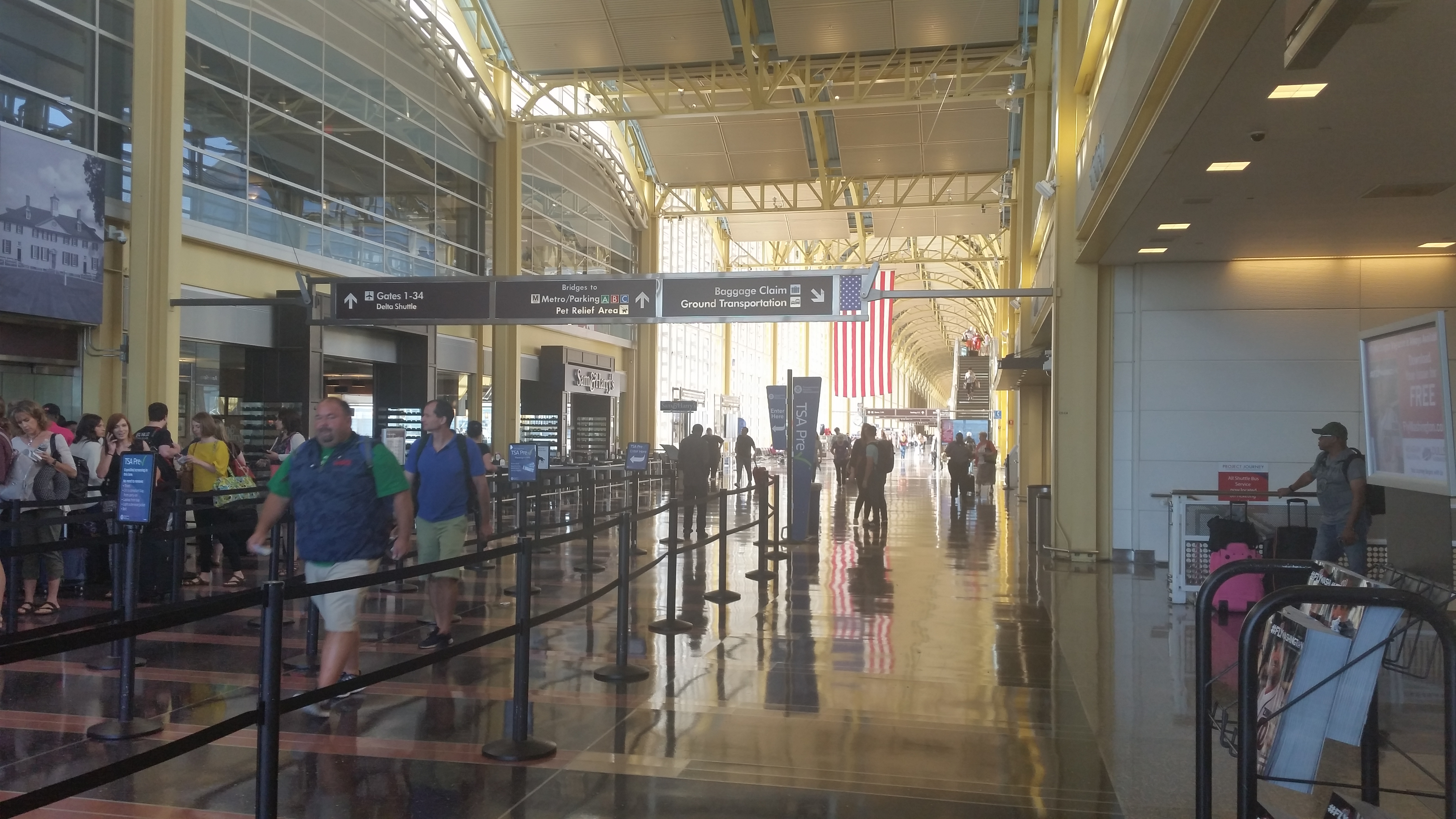 Interior of Ronald Reagan Washington National Airport, looking south from Terminal C